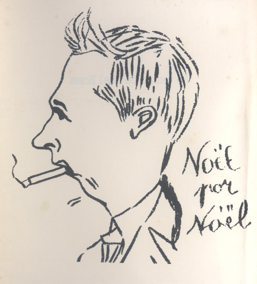 Noel Rosa's self-portrait.